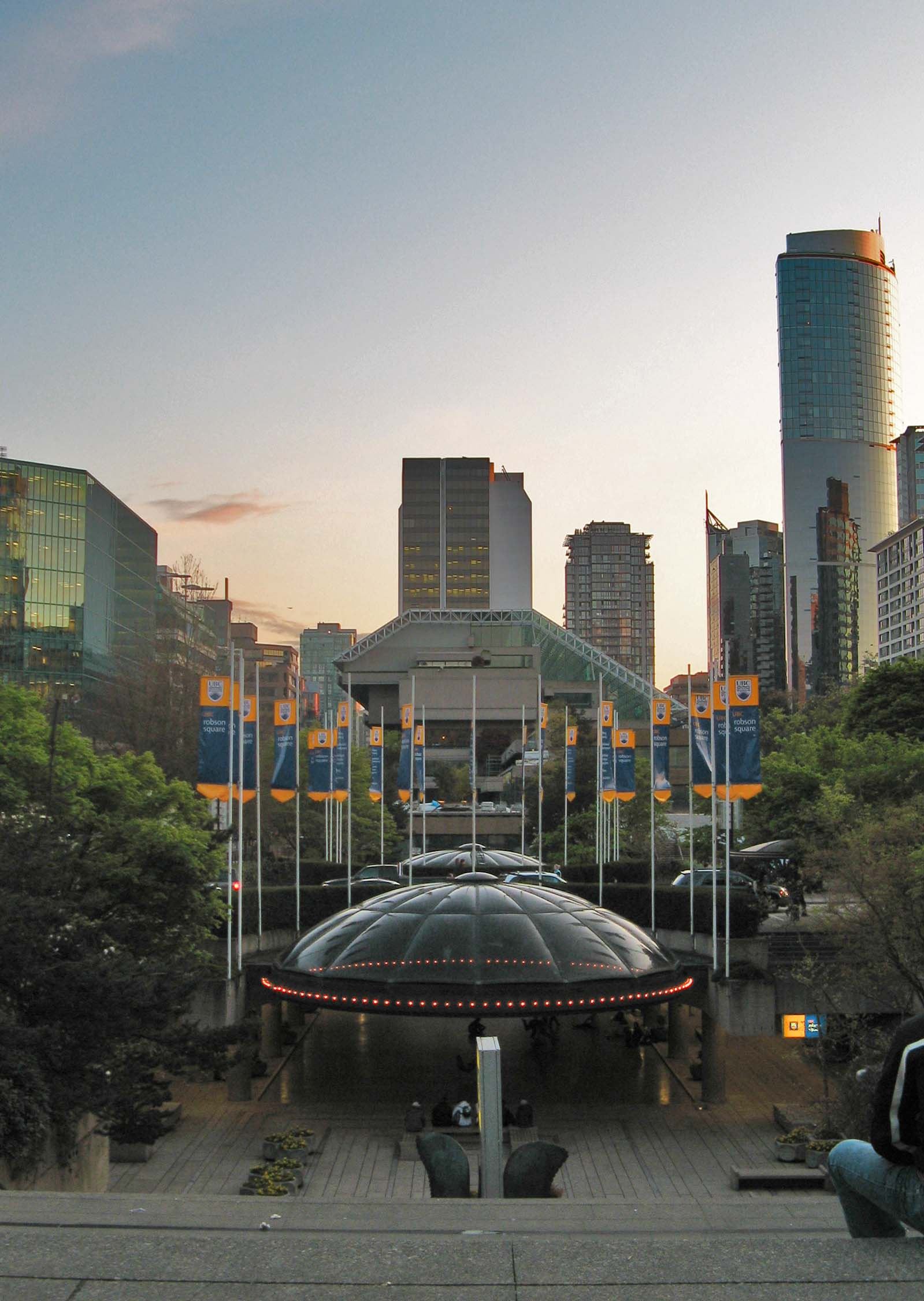 Robson Square, Vancouver. Taken by me on 20 April 2007.